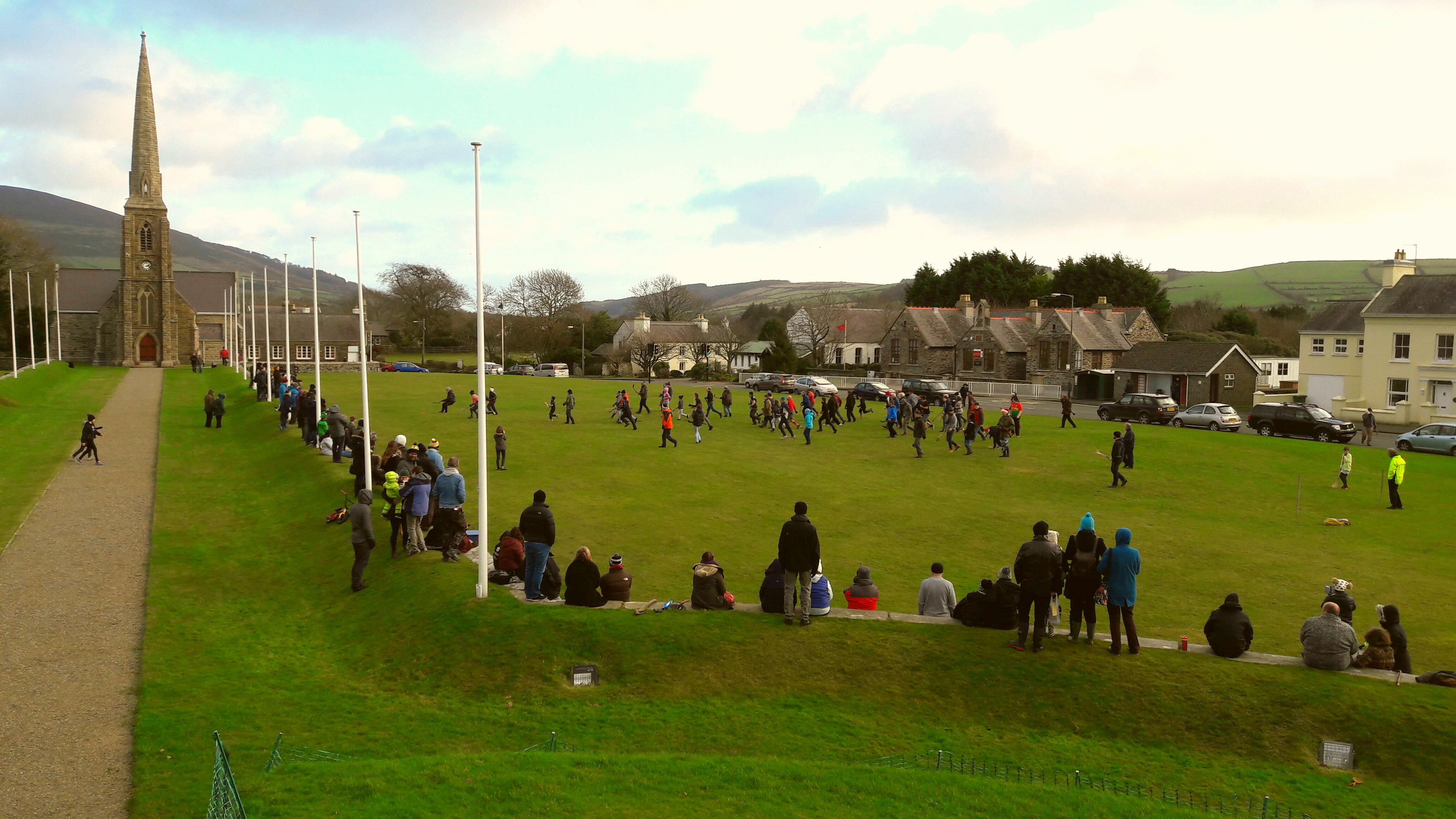 The St. Stephen's Day cammag match at St. John's, 2016